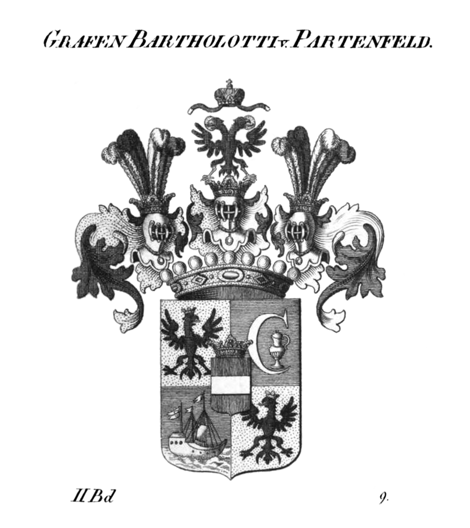 Coat of Arms of Bartholotti von Partenfeld (Counts)